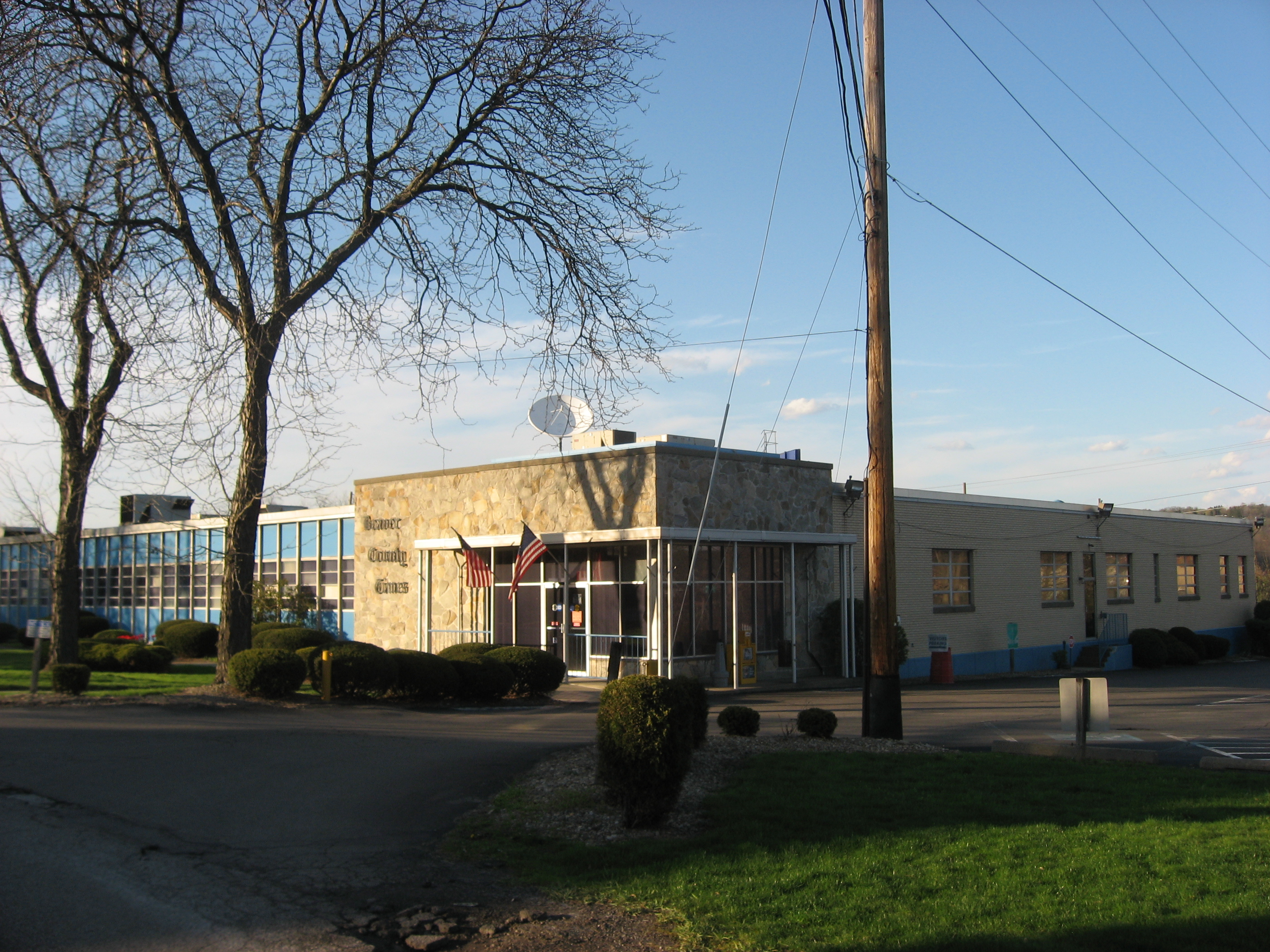 Offices of The Beaver County Times, located at 400 Fair Avenue in Bridgewater, Pennsylvania, United States.